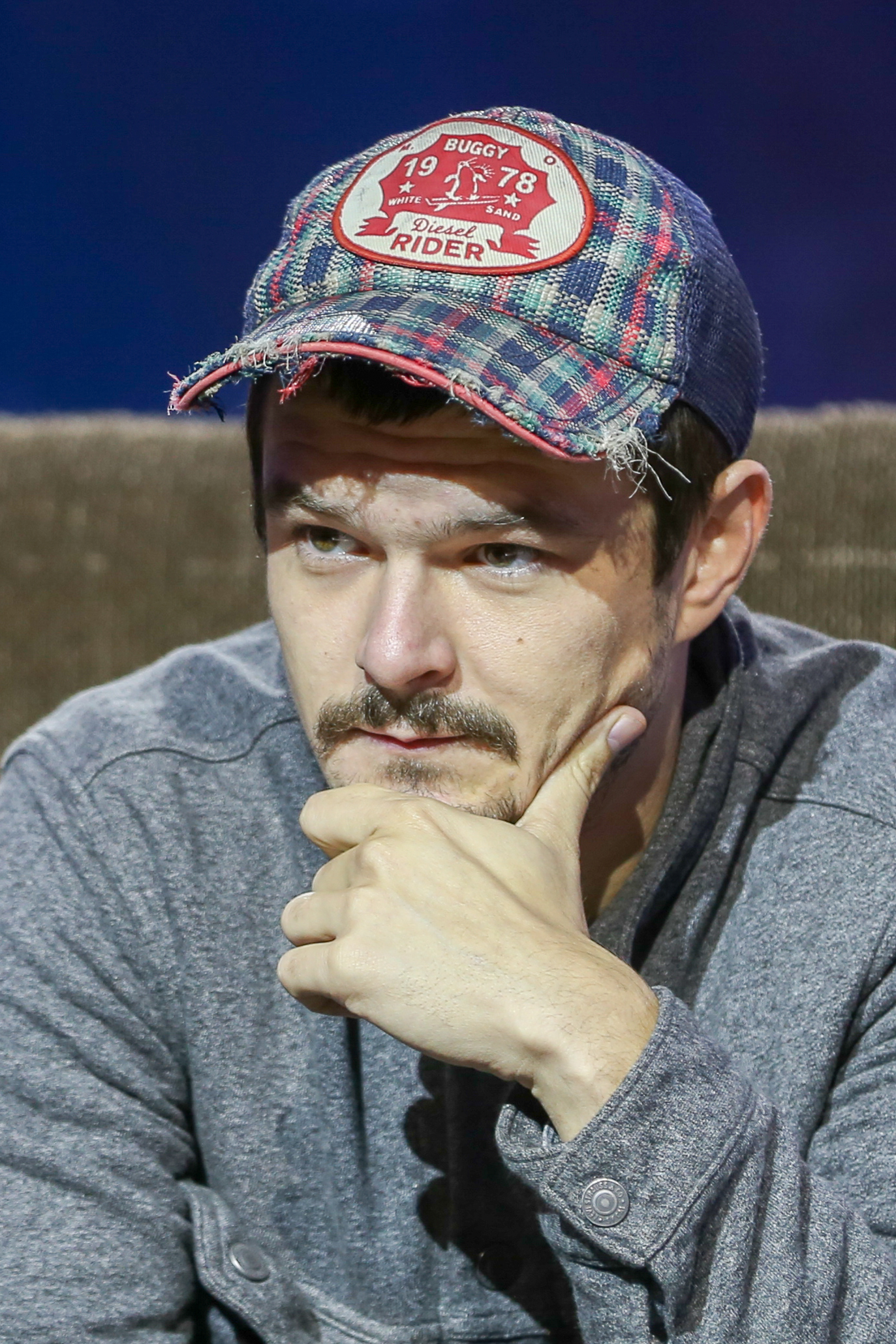 Przystanek Woodstock in 2016.